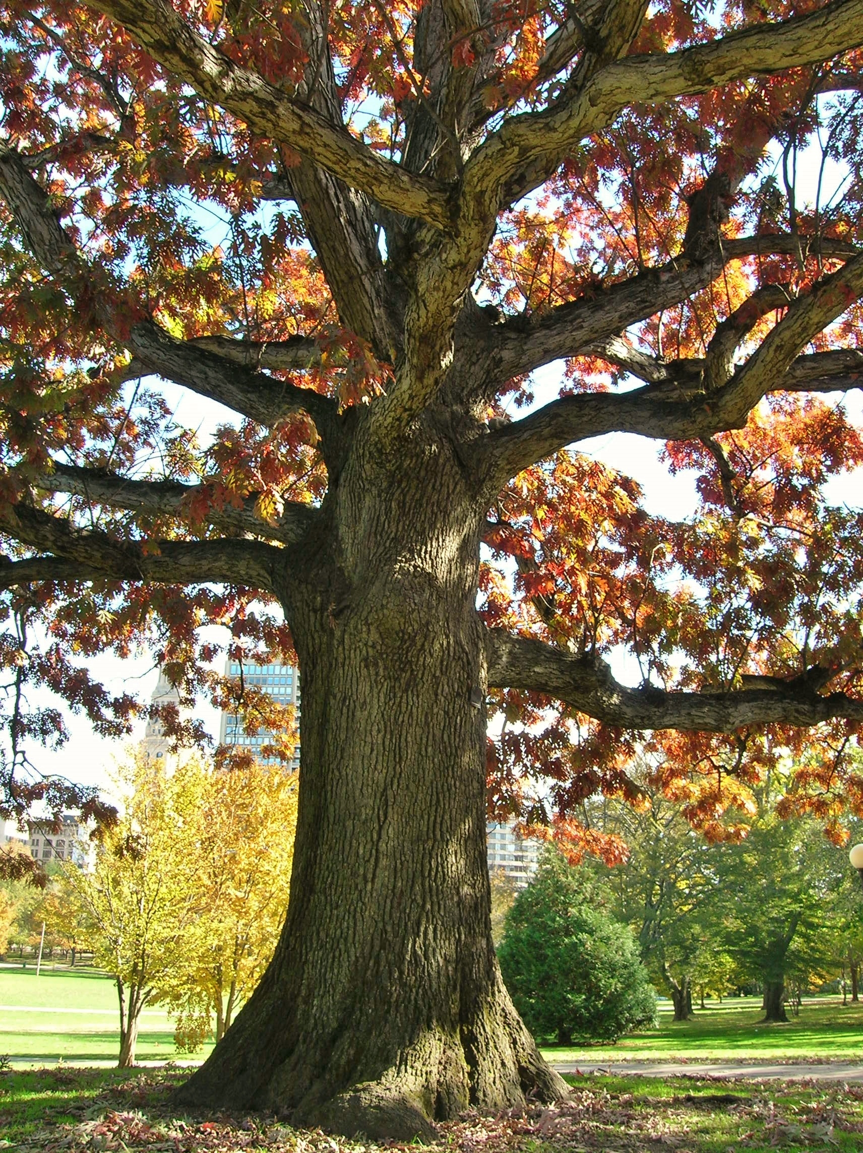 Photo of "The Footguard Oak," a descendant of The Charter Oak, located in Bushnell Park, Hartford, Connecticut. Photo taken November 4, 2011.